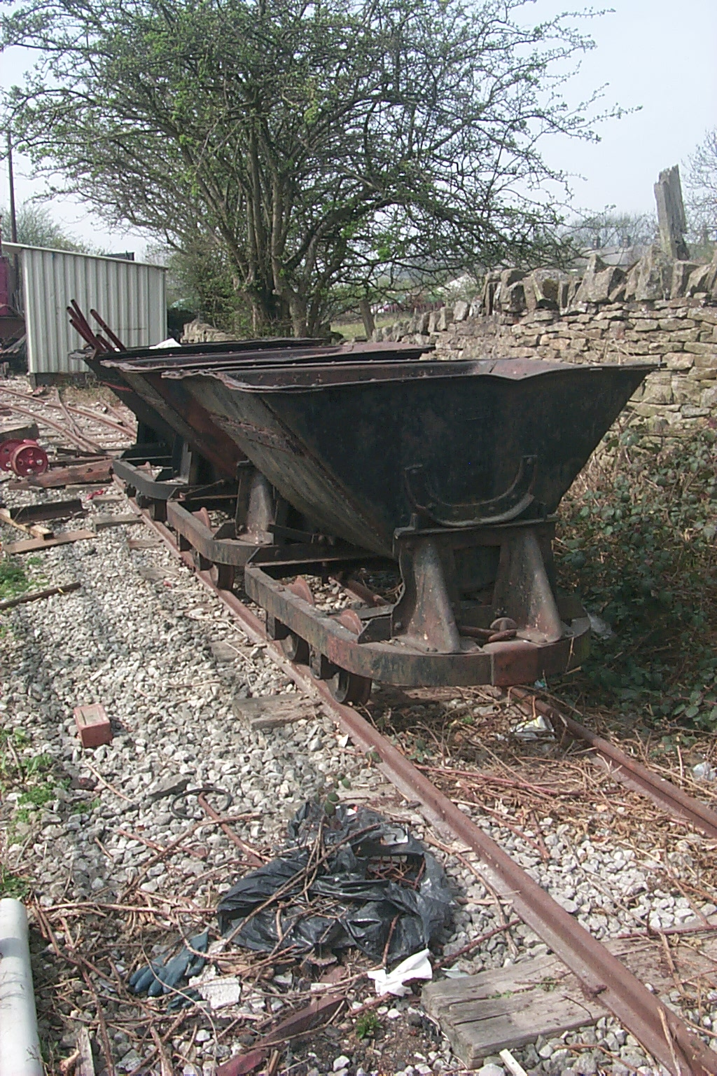 Tipper wagons built by Robert Hudson Ltd., seen at Embsay station